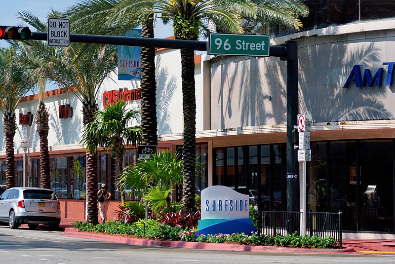 New Surfside sign on Harding Ave. since 2013